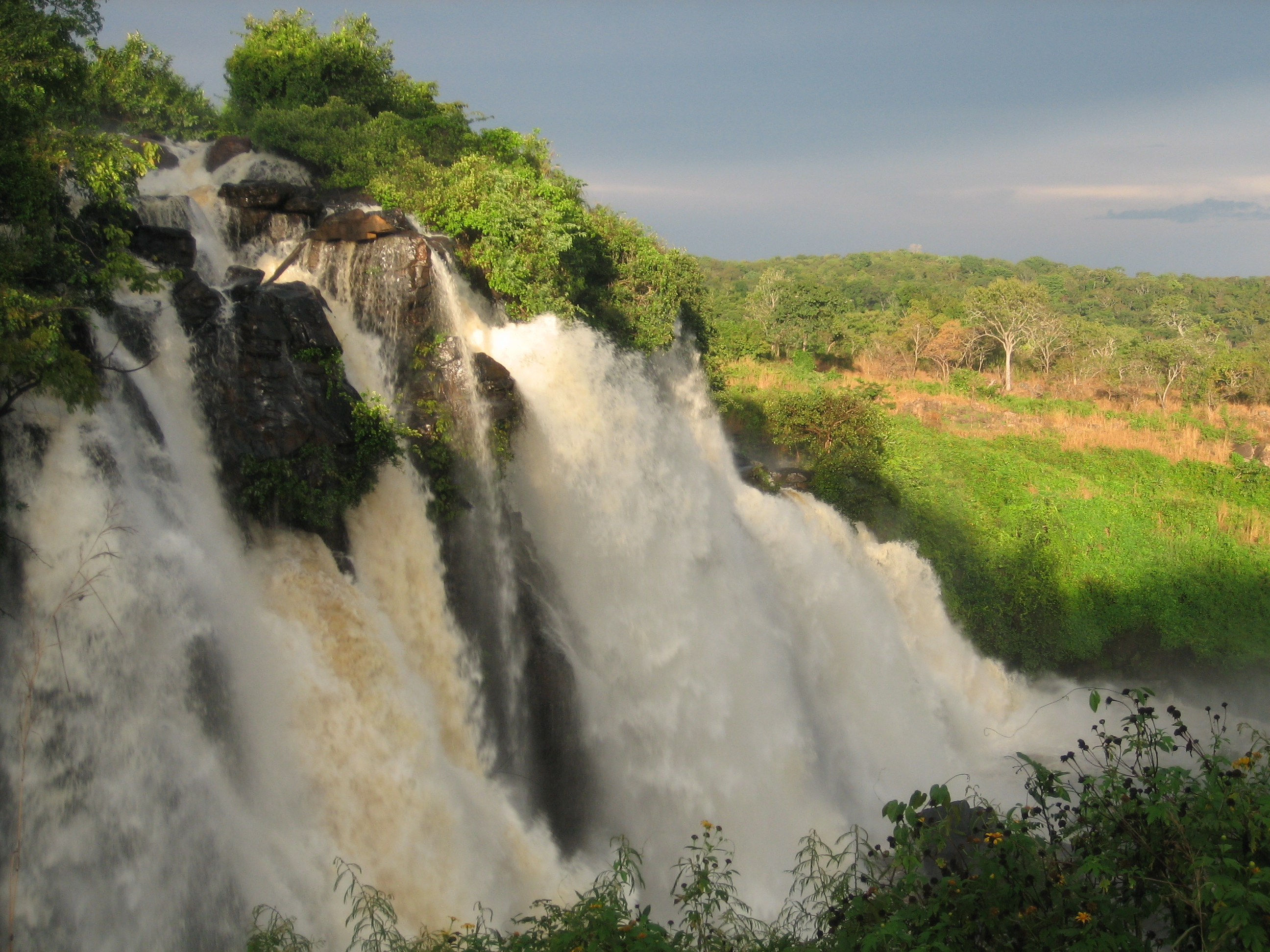 Boali waterfalls - CAR's only power plant